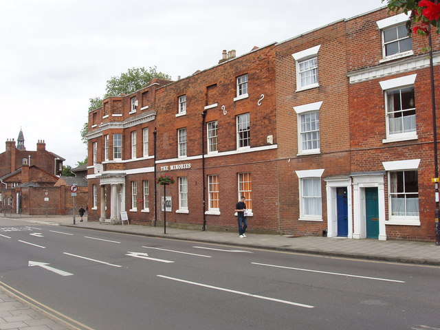 The Minories, Colchester. This Georgian mansion rebuilt 1776 is an art gallery, with a pleasant cafe and garden. It is on East Hill.